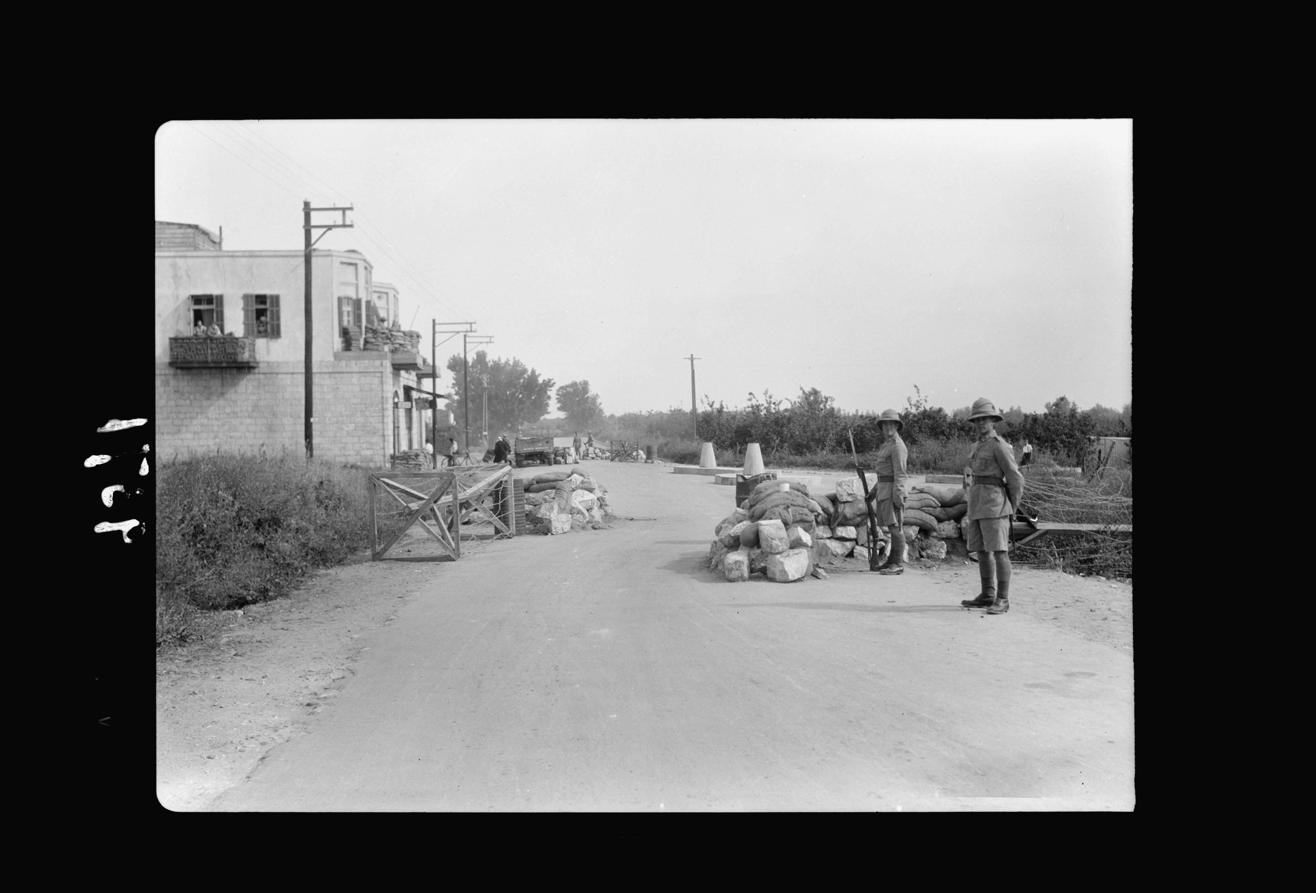 Title: Military road block at junction Ramleh-Lydda Road Abstract/medium: G. Eric and Edith Matson Photograph Collection Physical description: 1 negative